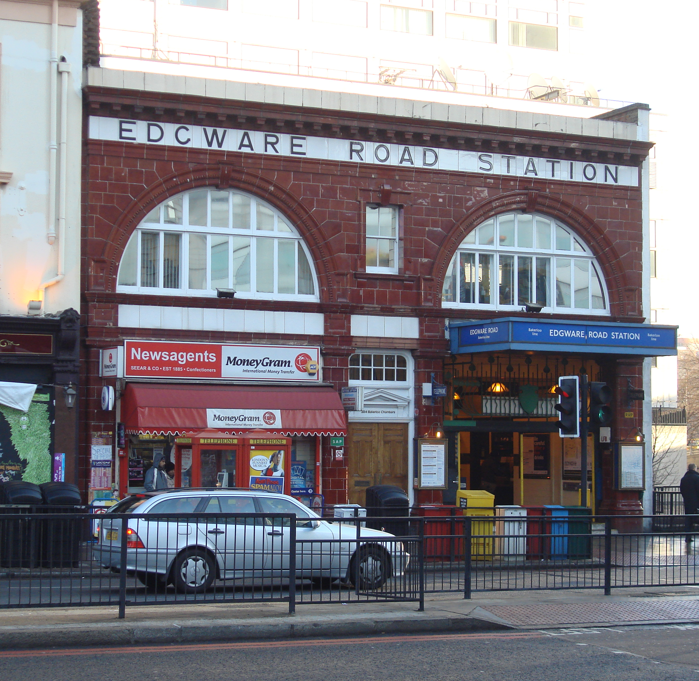 Edgware Road tube station, Bakerloo line